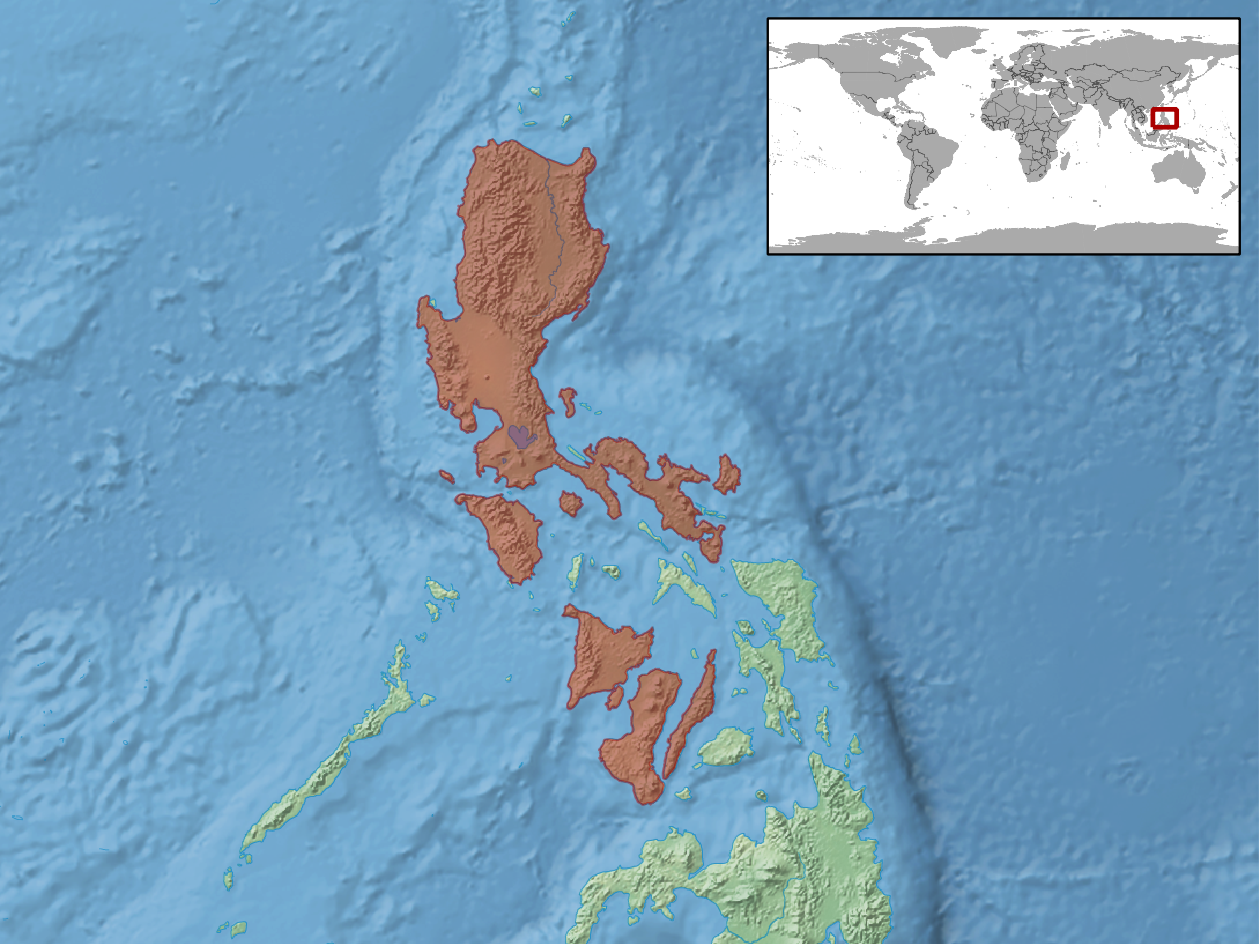 geographic distribution of Cyclocorus lineatus Native: Philippines